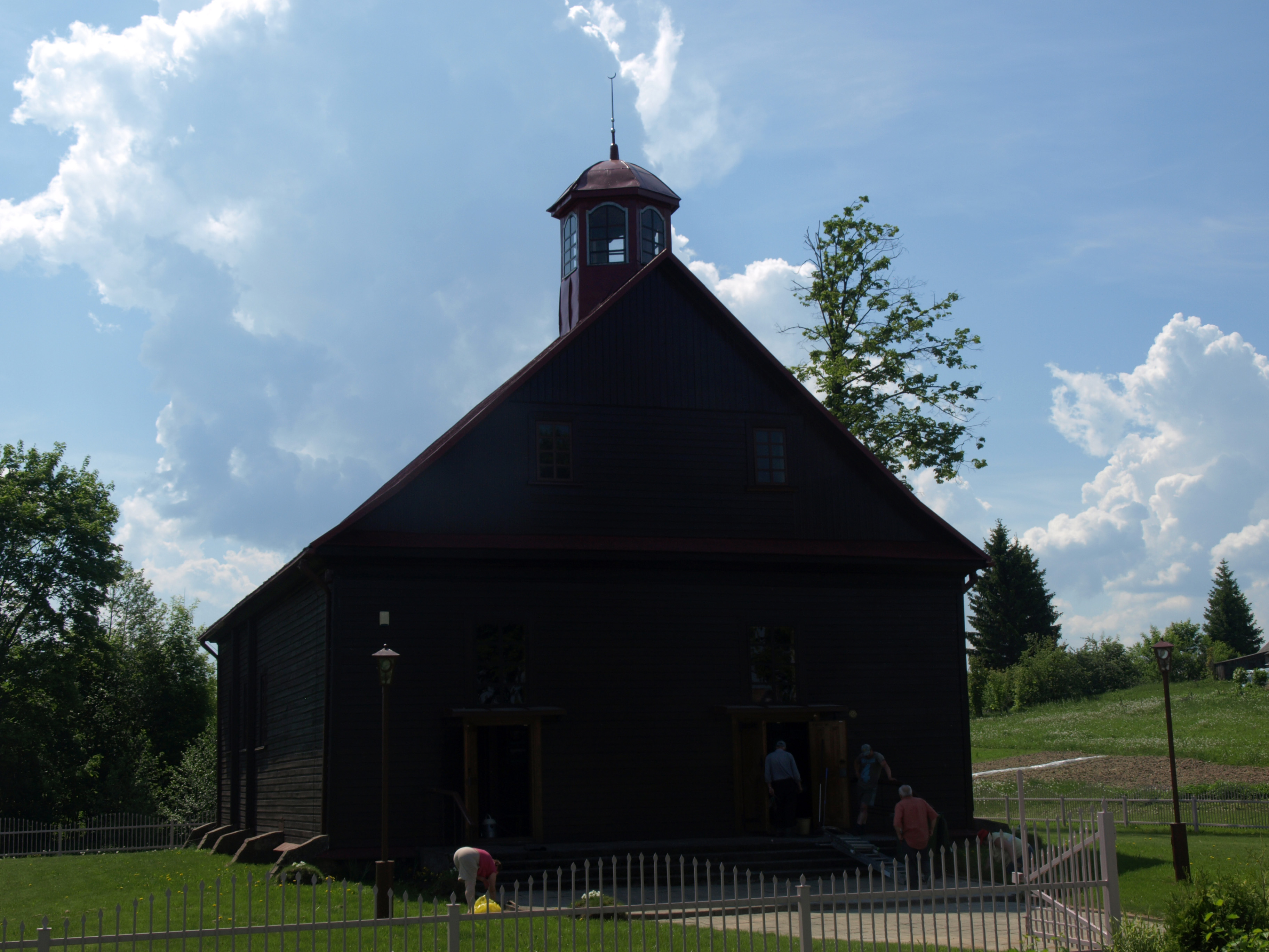 Raižiai mosque, Alytus district, Lithuania